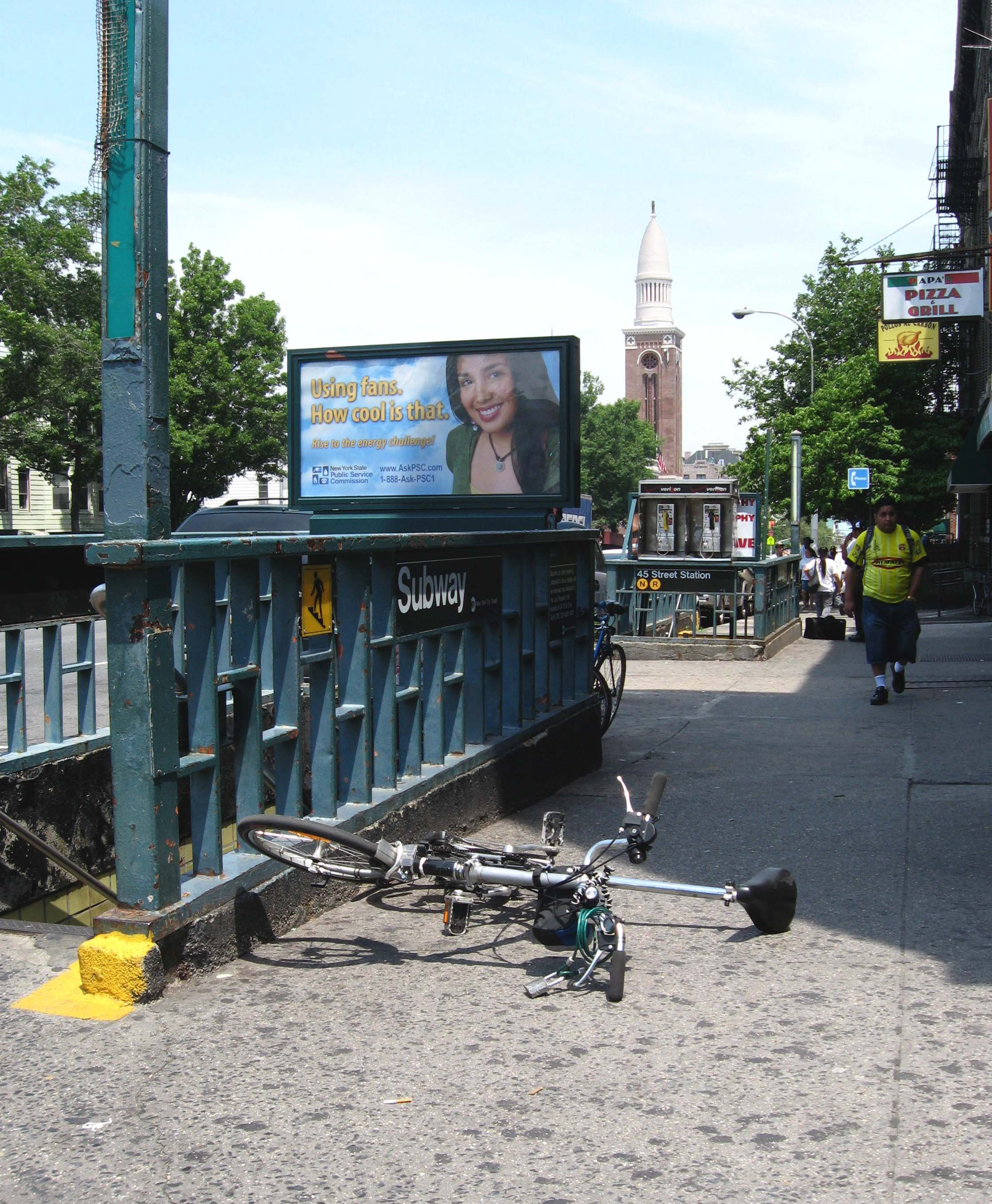 Looking north at en:45th Street (BMT Fourth Avenue Line) stair and St Michael's Church in Sunset Park, Brooklyn on a sunny midday. Photographer's improperly parked bicycle lies fallen beside the fence.